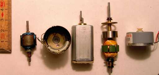 Permanently excited DC motors